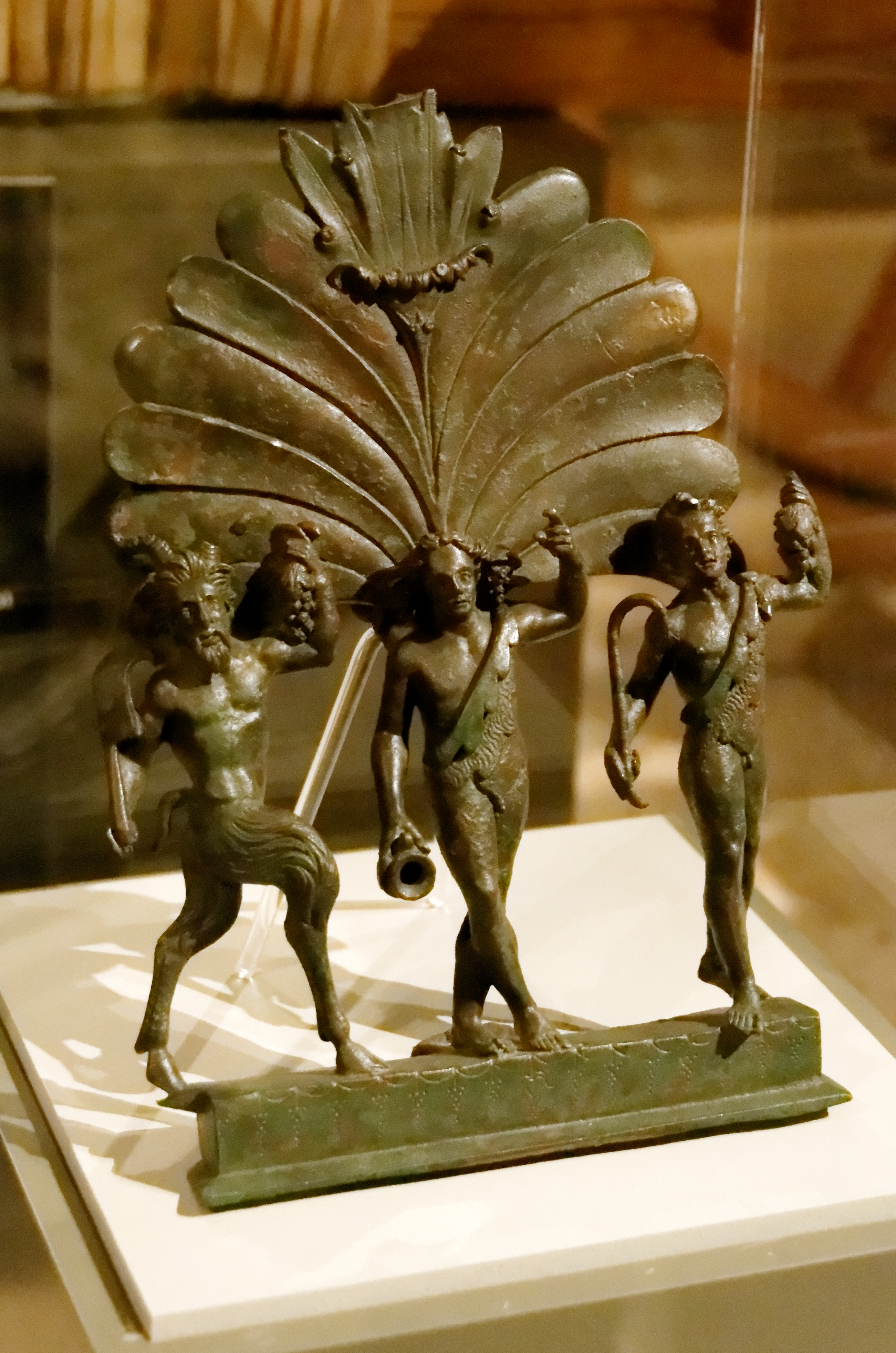 Bronze ornament on a roman's chariot with from left to right : Faunus (Pan), Bacchus and a satyr. 2nd century AC. Find in Somodorpuszta (Hungary). Exposed in hungarian national museum, Budapest